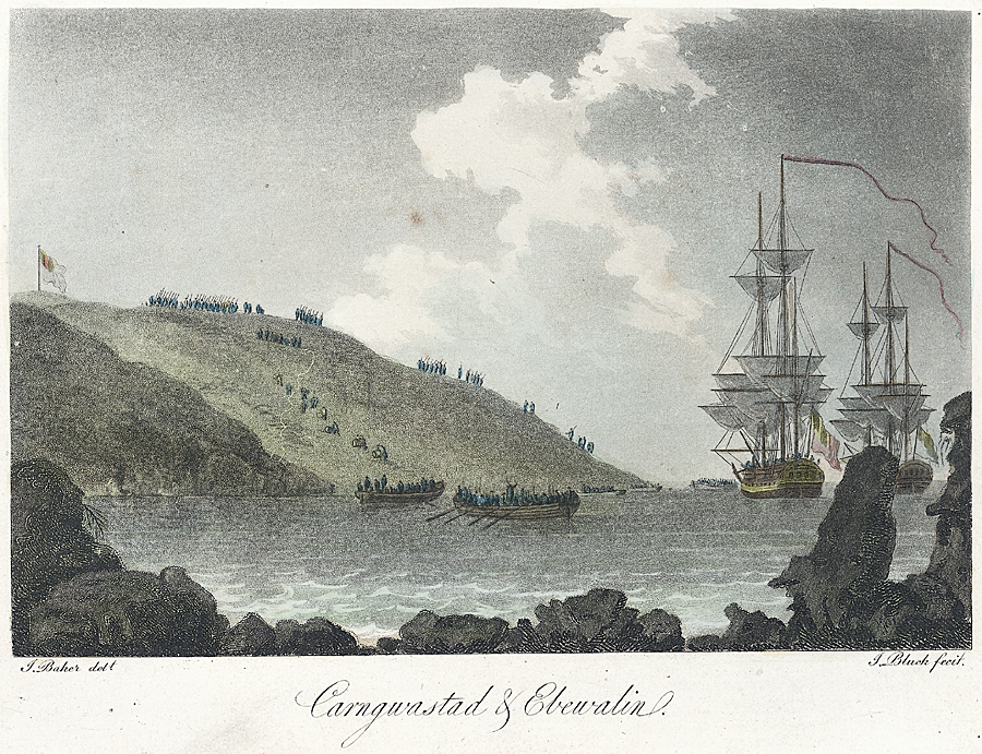 French troops landing at Carngwasted near Fishguard on the 23 February 1797. This images depicts the last ever invasion by ground troops on British soil. See Battle of Fishguard First Published May 1st 1797 and reproduced in Baker's Picturesque Guide to the Local Beauties in Wales, Vol II (various post 1797 editions). This is thought to be the only contemporary image of the last invasion on British soil.